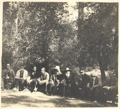 photo of theodore hittell and john muir together